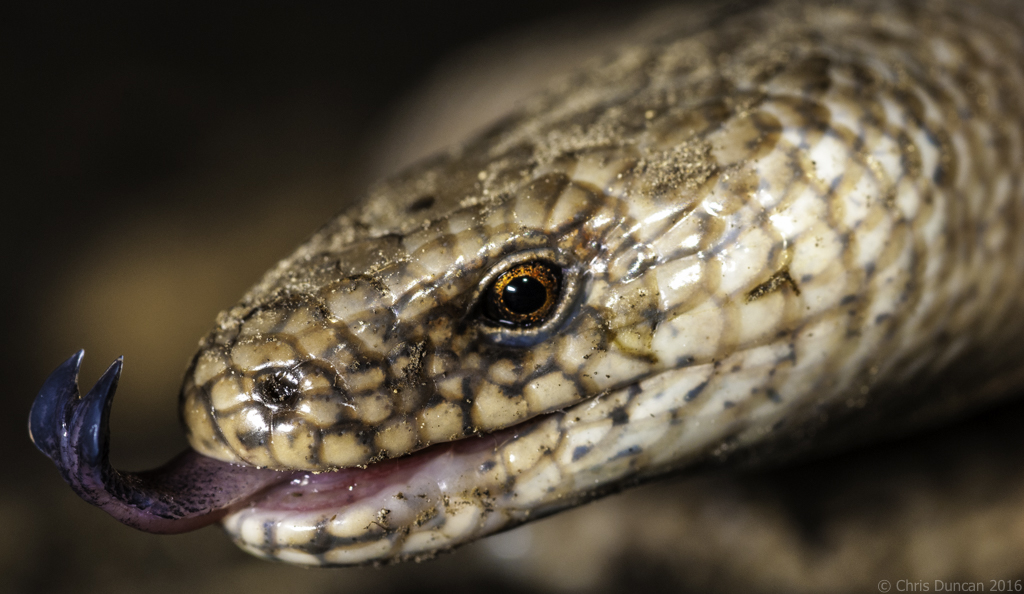 Close up of a slow worm's head with tongue showing